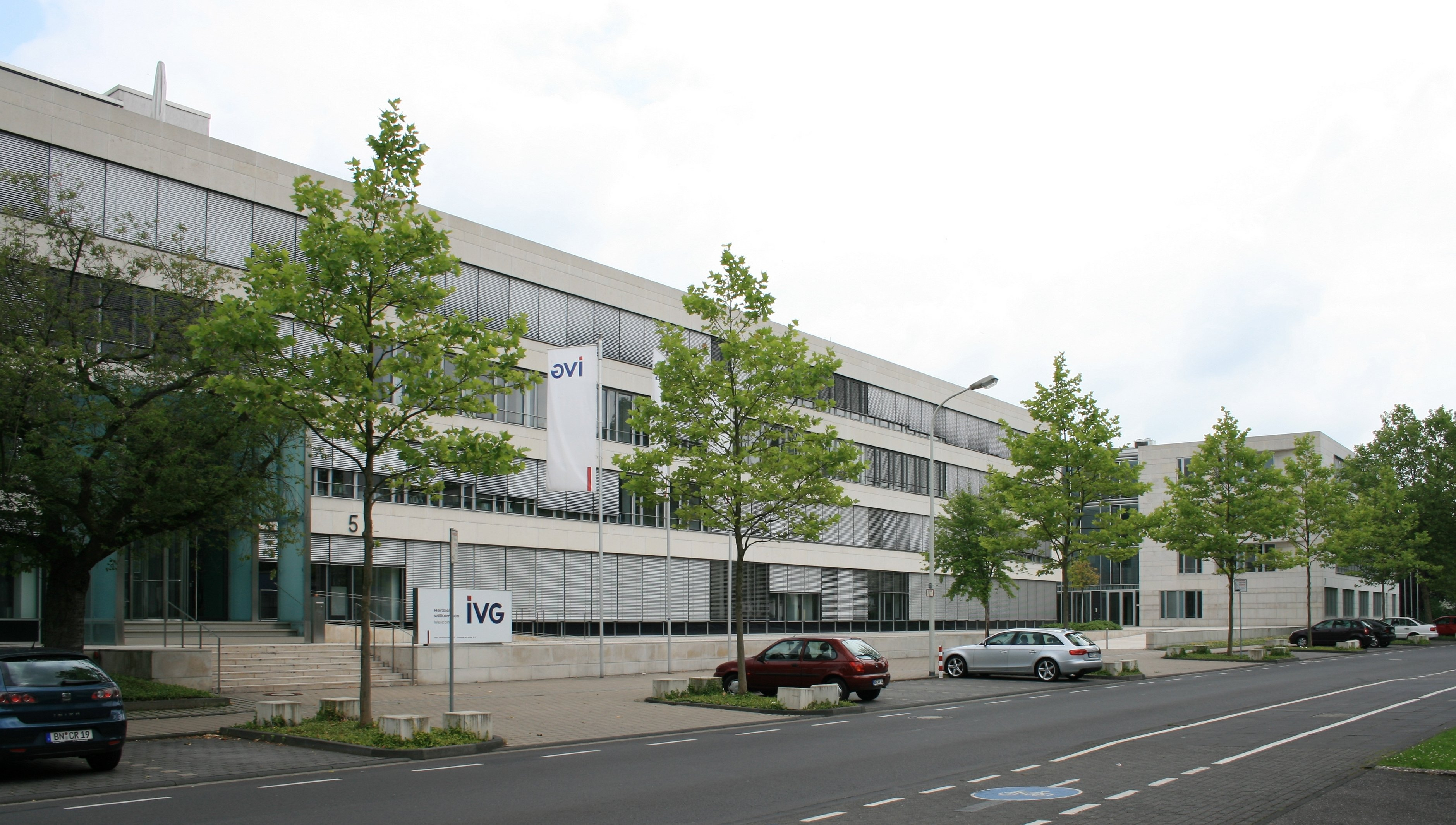 then (until about april 2015) headquarter german real estate company IVG in Bonn, Germany